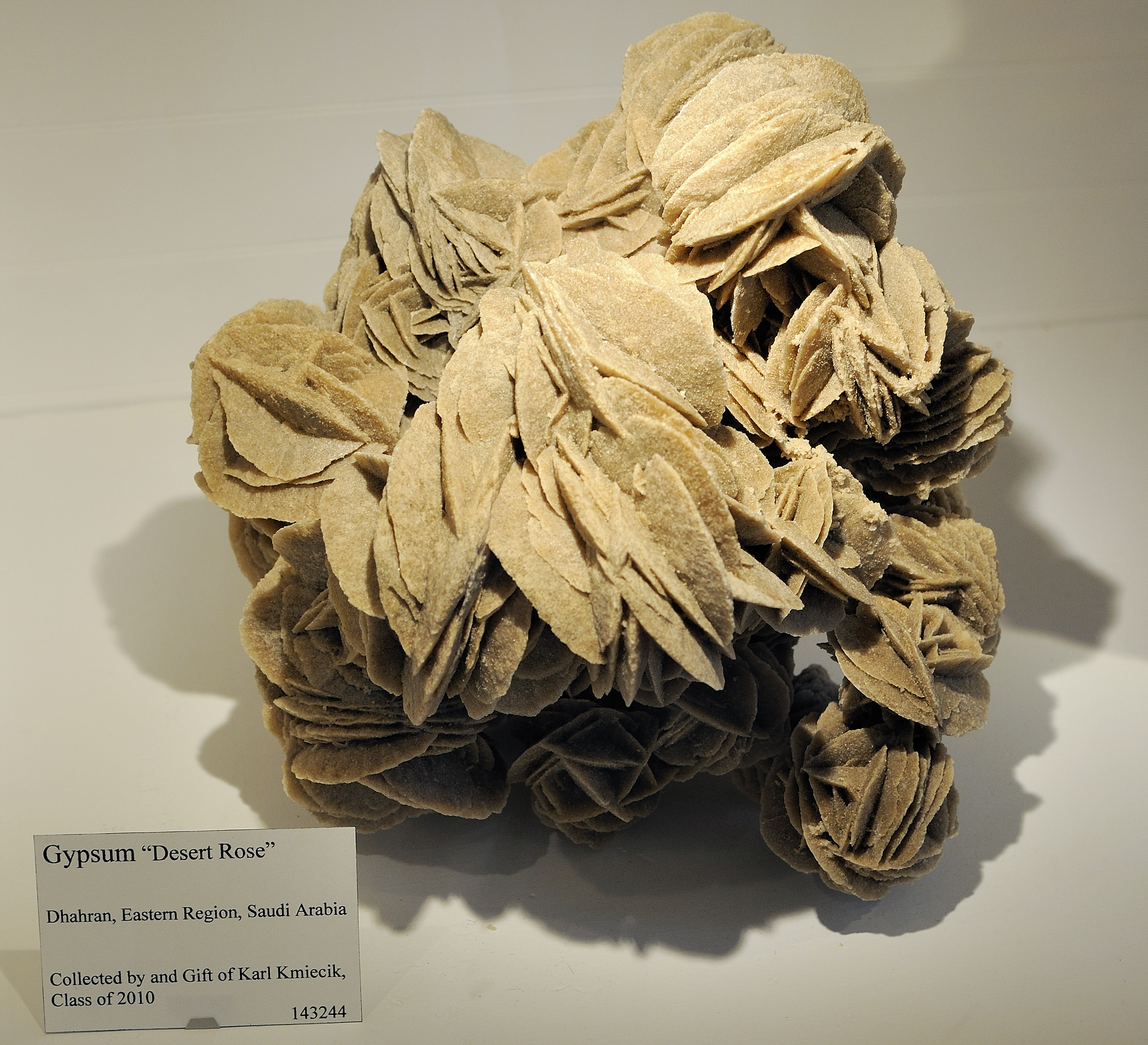 Harvard Museum of Natural History. Gypsum Desert Rose. Dhahran, Eastern Region, Saudi Arabia.